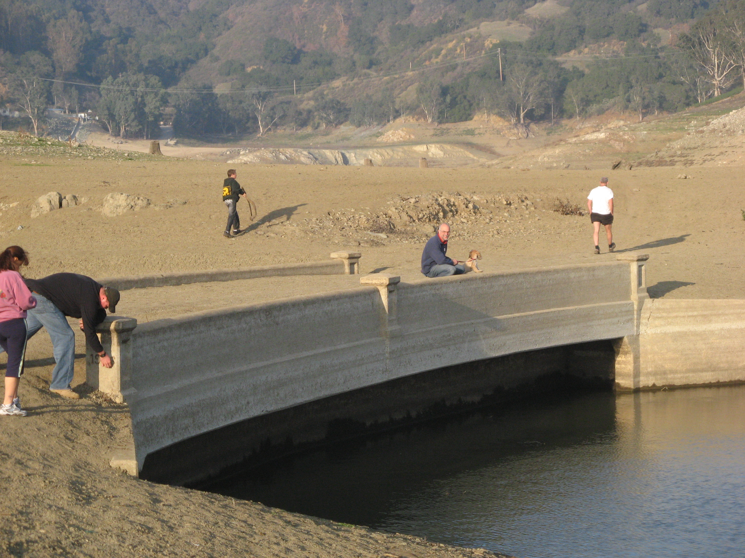 View of Alma Bridge, usually below the waters of Lexington Reservoir, but exposed in 2008's dam maintenance